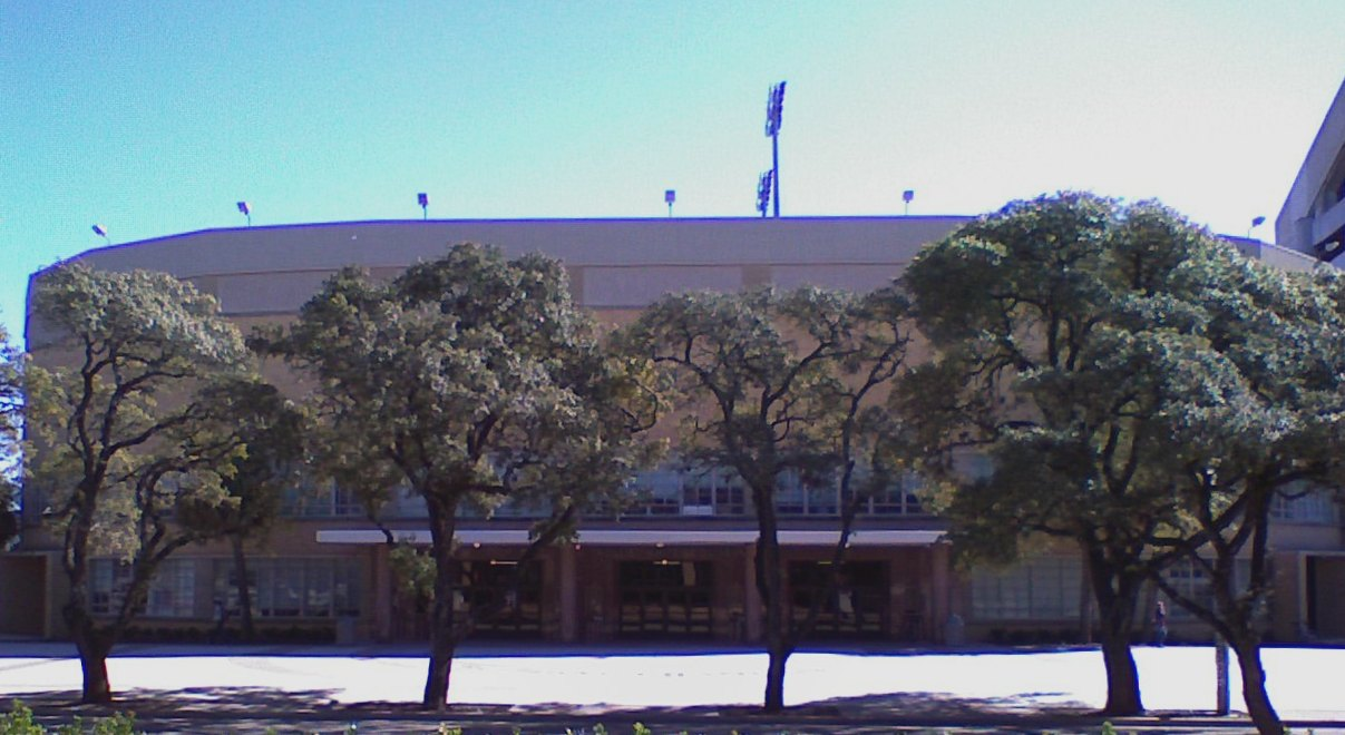 G. Rollie White Coliseum on the campus of Texas A&M University. Photo shows ticket windows and main entrance into the gymnasium.